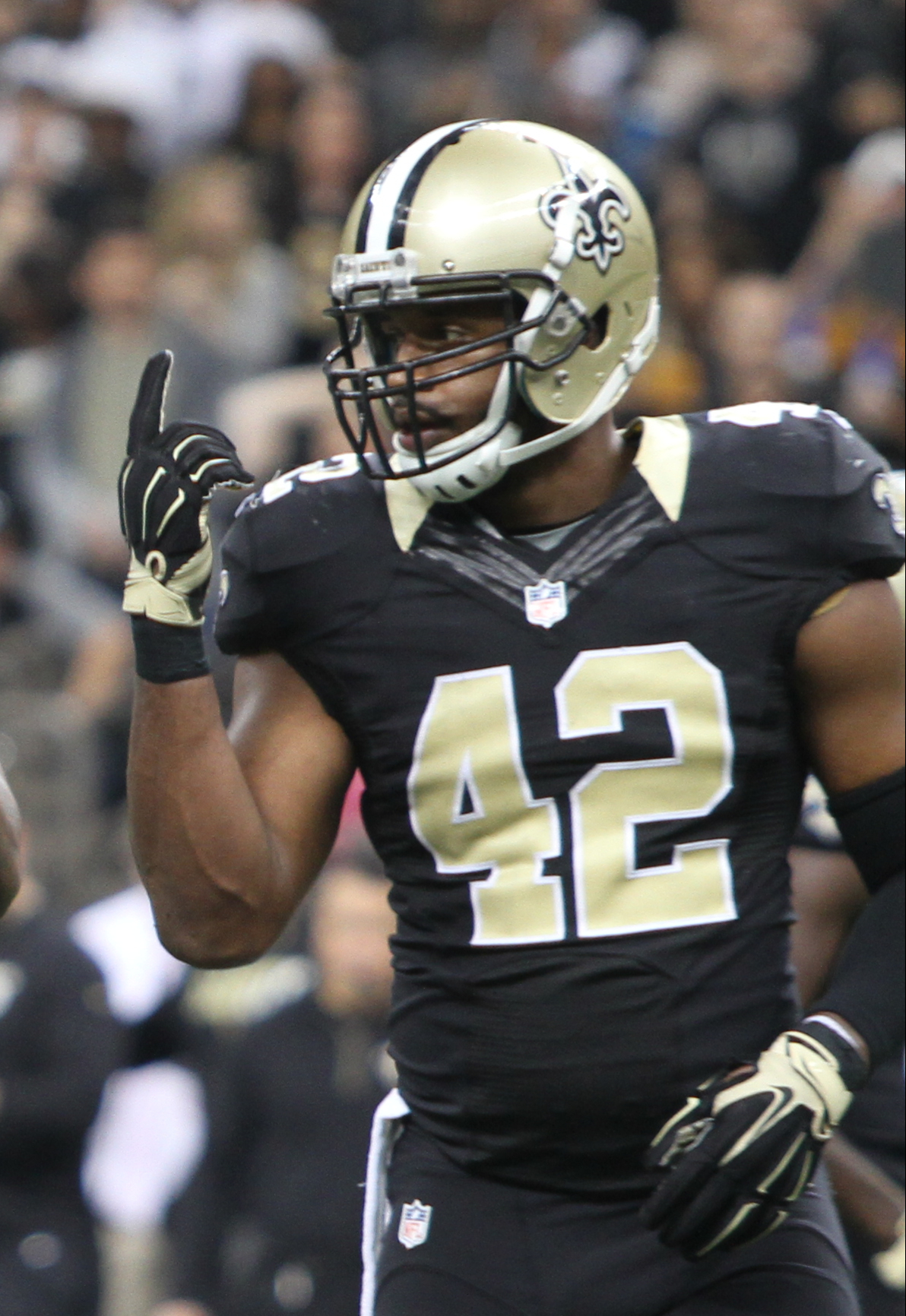 New Orleans Saints vs Carolina Panthers, December 6, 2015, Tammy Anthony Baker, Photographer